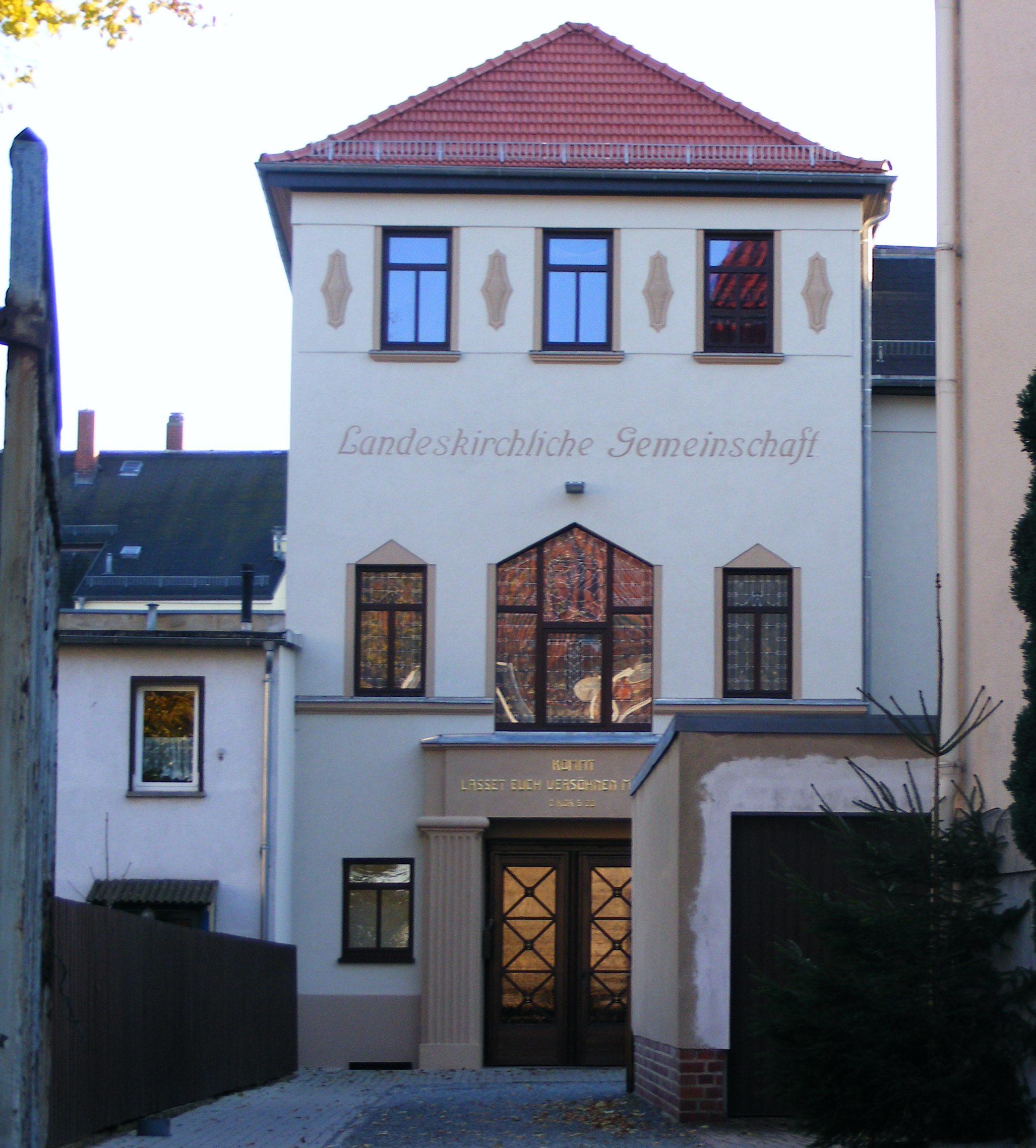 Free Church of "Landeskirchliche Gemeinschaft" in "Werdau" / saxony